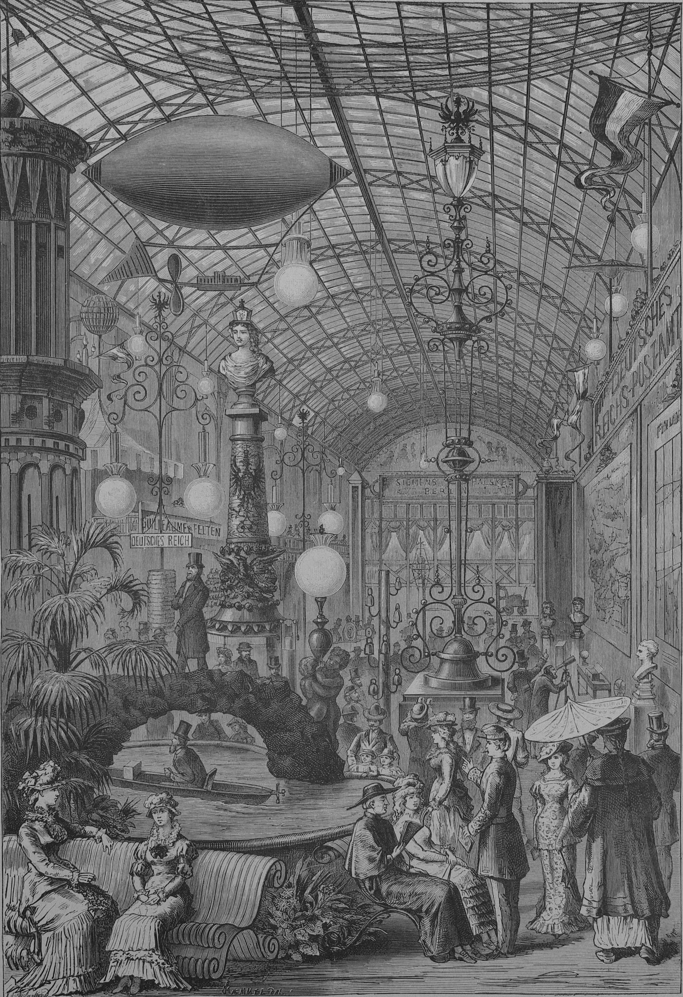 caption: "Deutsche Abtheilung der ersten elektrischen Weltausstellung in Paris. Nach einer Skizze von Ernst Hinkefuß auf Holz übertragen von Martin Lämmel."